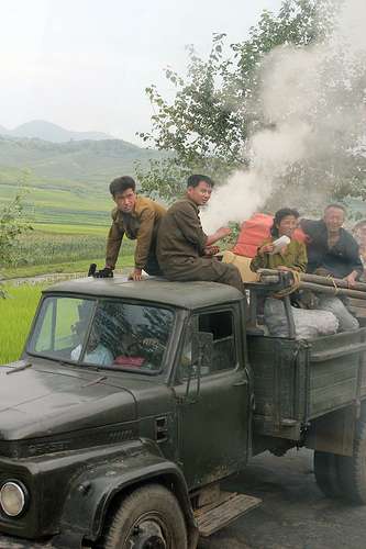 A wood-gas truck near the Kosong Pass in North Korea.